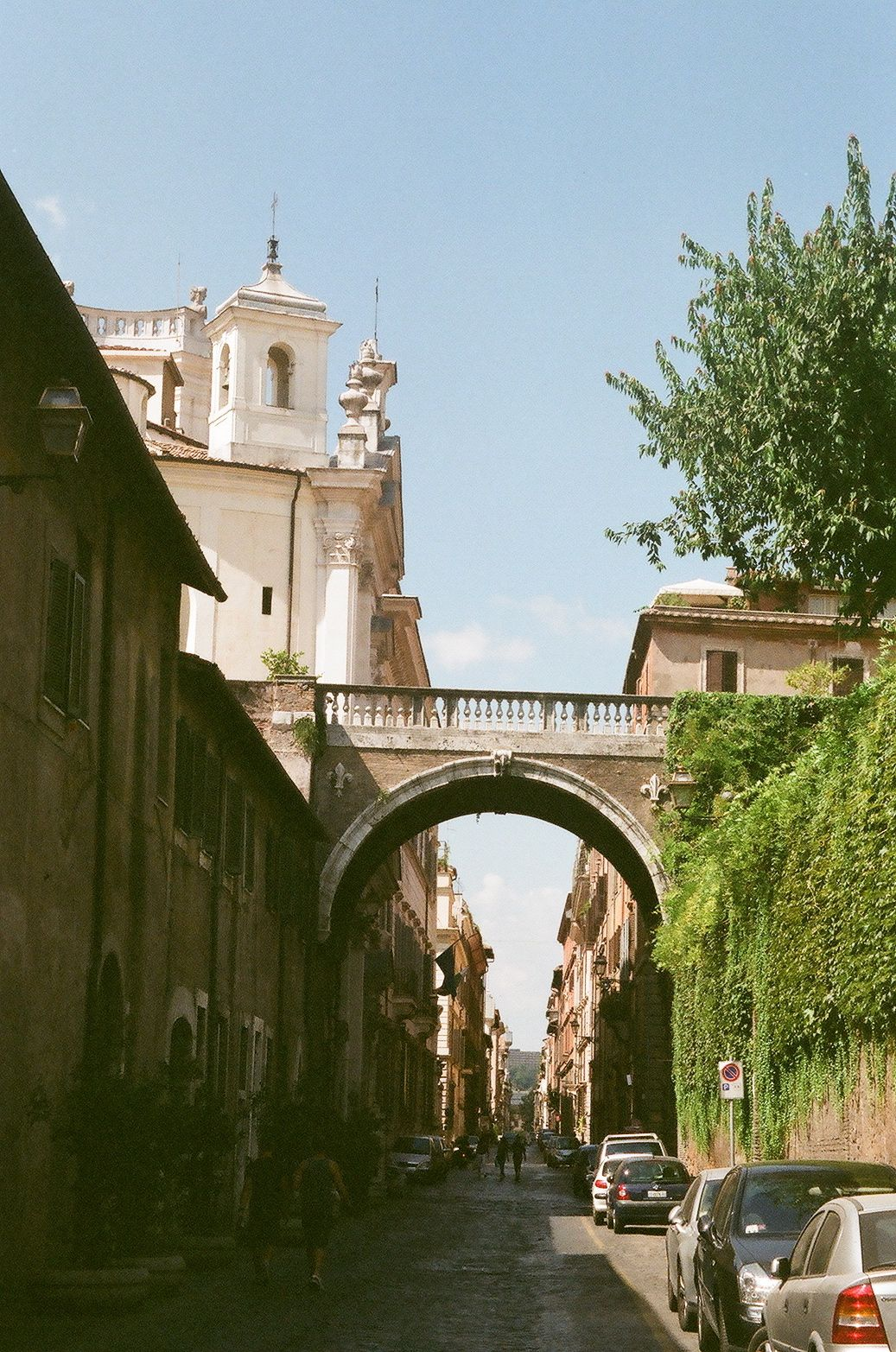 Via Giulia in Rome